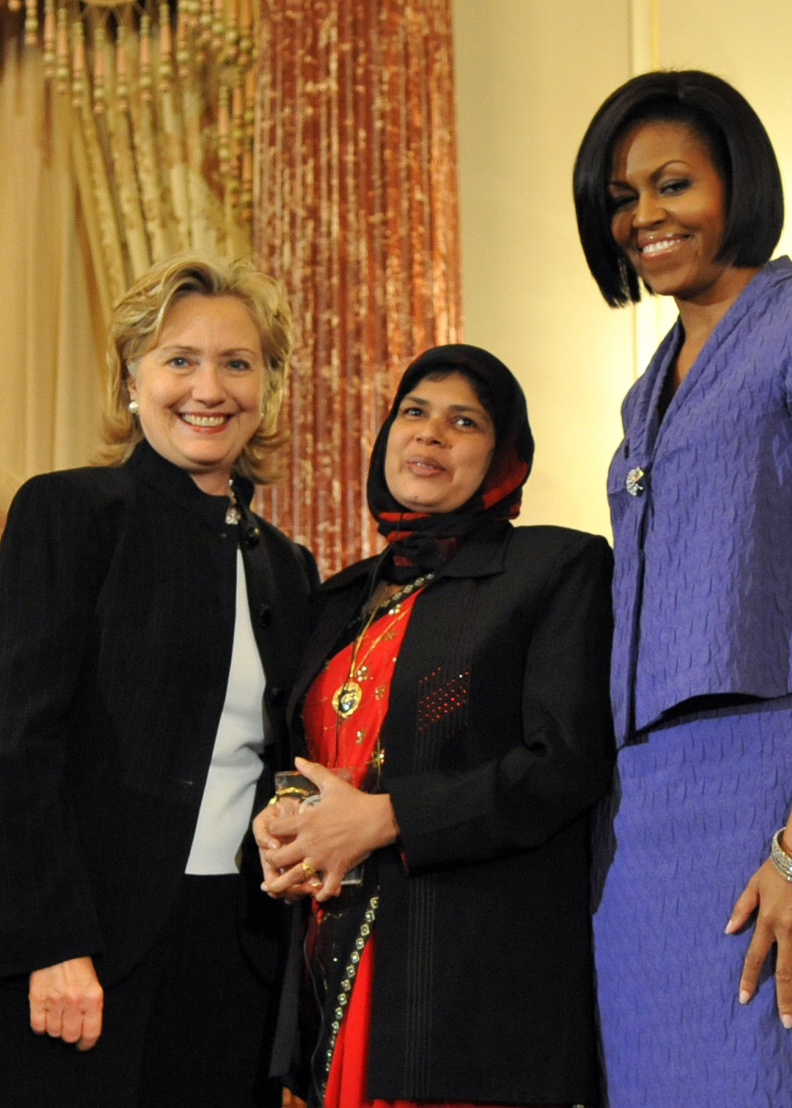 2010 International Women of Courage Awards - individual awardees with Secretary of State Hillary Clinton and First Lady Michelle Obama